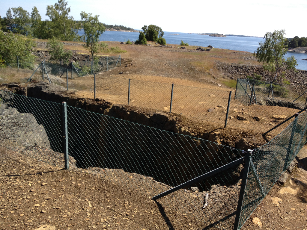 Fångömines other smaller entrance.